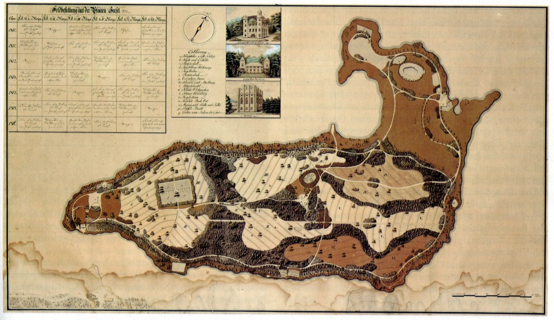 Pfaueninsel (isle of peacocks) near Berlin. Historical Map, designed about 1810.